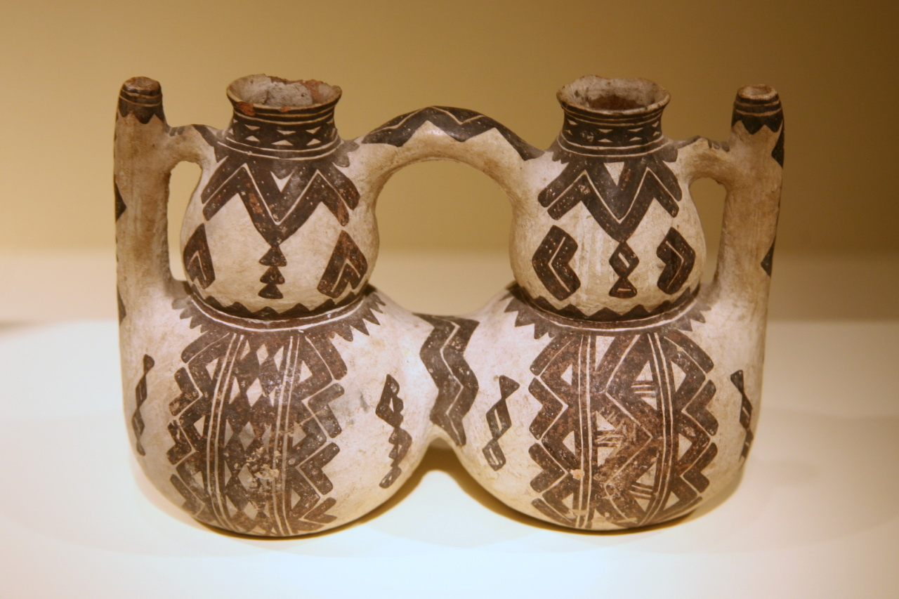 The inhabitants of the mountainous Kabyle region along the Mediterranean coast in northeastern Algeria were superb artists noted for their jewelry making, textiles, mats, basketry, pottery and house mural decoration. In North Africa, wheel-thrown pottery made by men dates from the 7th century B.C. when the Phoenicians introduced the potter's wheel to the Algerian coast. Handbuilt pottery made by women, including those from the Kabyle, an older, probably indigenous tradition, dates back 2000 years before the birth of Christ. The vessel depicted here originates from earlier prototypes. To this day, Kabyle women coil and decorate pottery with beautiful painted geometric designs for their own household use and for sale. Kabyle women handbuild vessels of various sizes and shapes for holding water, milk, oil, cooking and eating food, and oil lamps. (National Museum of African Art, Washington DC)